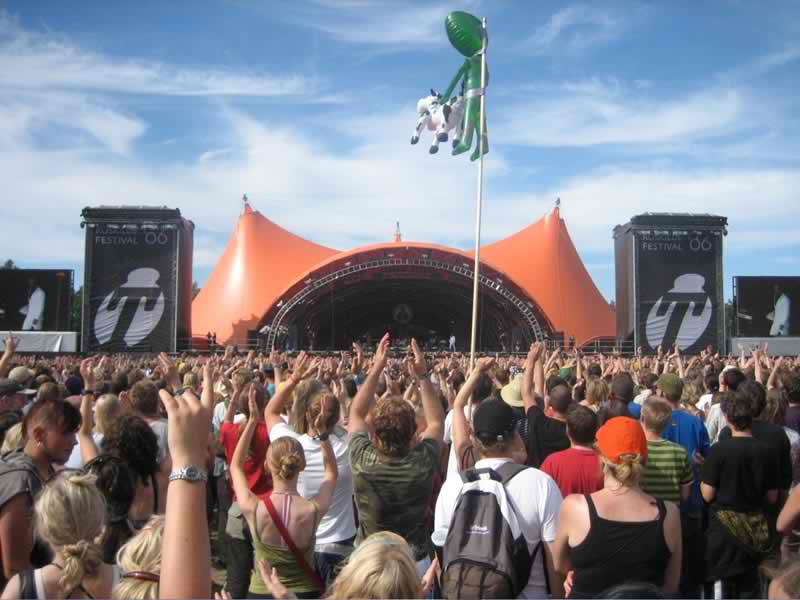 Concert picture from orange stage where Kaizers Orchestra played at roskilde festival 2006. Taken by Jonas Jongejan